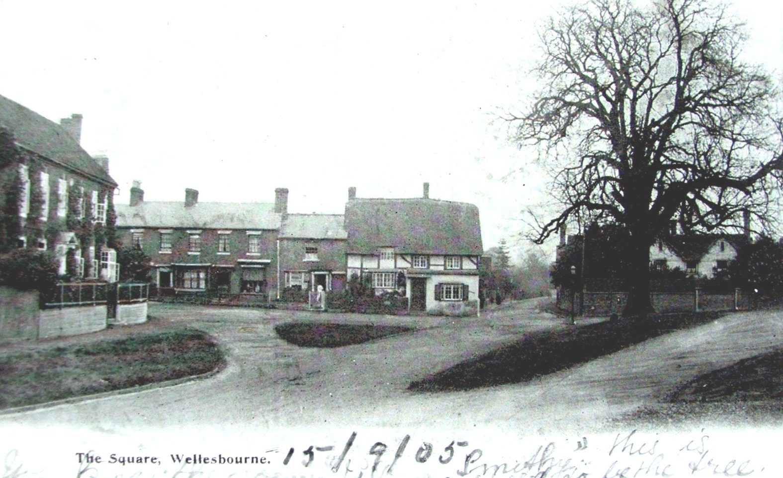 A postcard photograph of the original Wellesbourne Tree where Joseph Arch first addressed a crowd of agricultural labourers in 1872